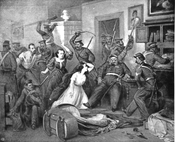 Russian army looting Polish manor during January Uprising